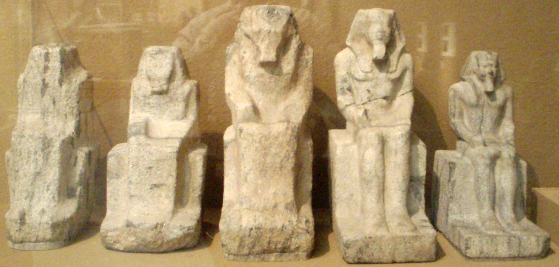 Five different small statues -- each depicting the pharaoh Menkaura -- reflecting distinct stages in the creation of statuary. 4th dynasty, reign of Menkaura, circa 2548-2530 B.C., all made of granite.